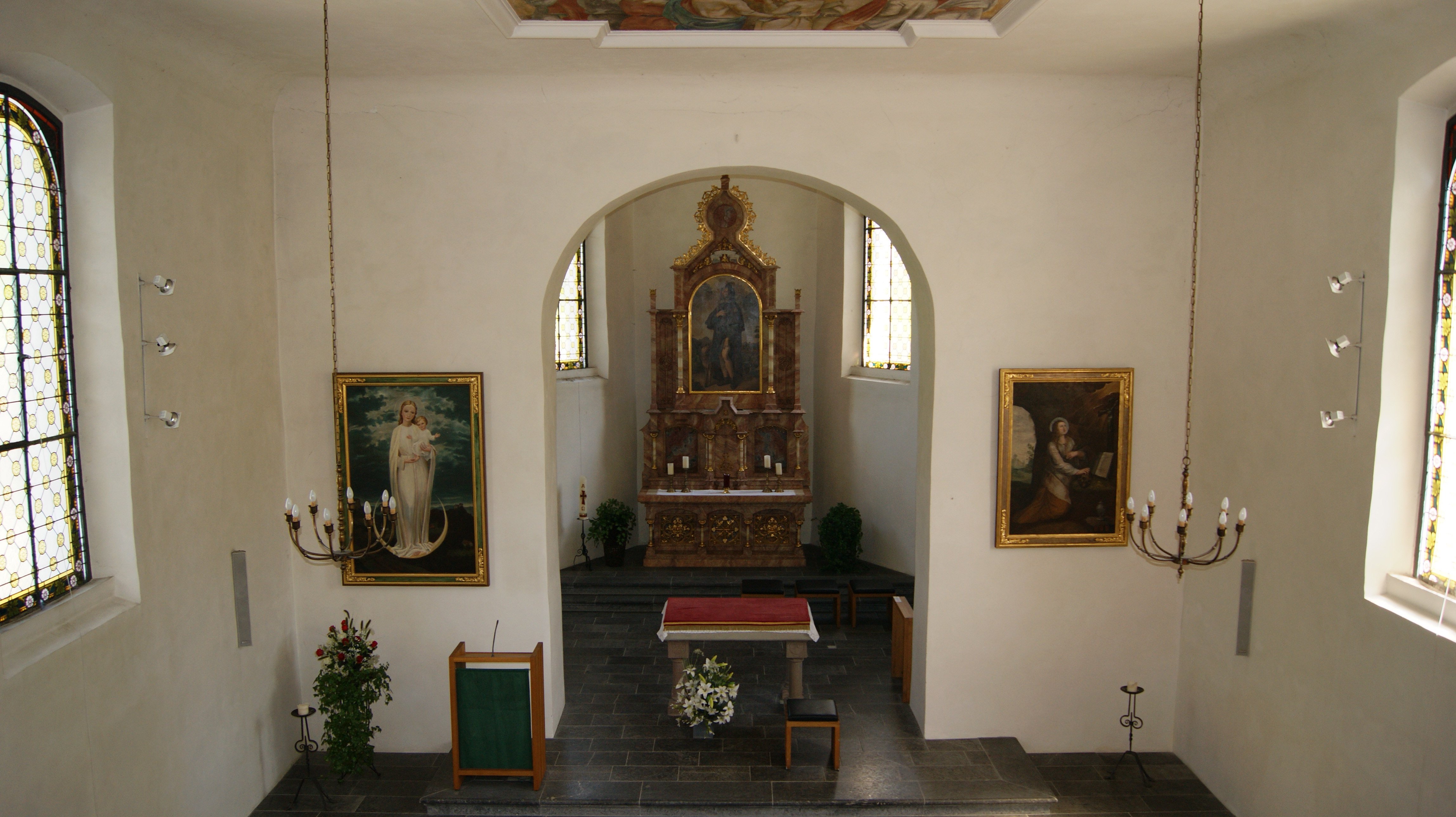 Chapel St. Rochus in Hohenems, Vorarlberg, Austria. View from the gallery to the choir.